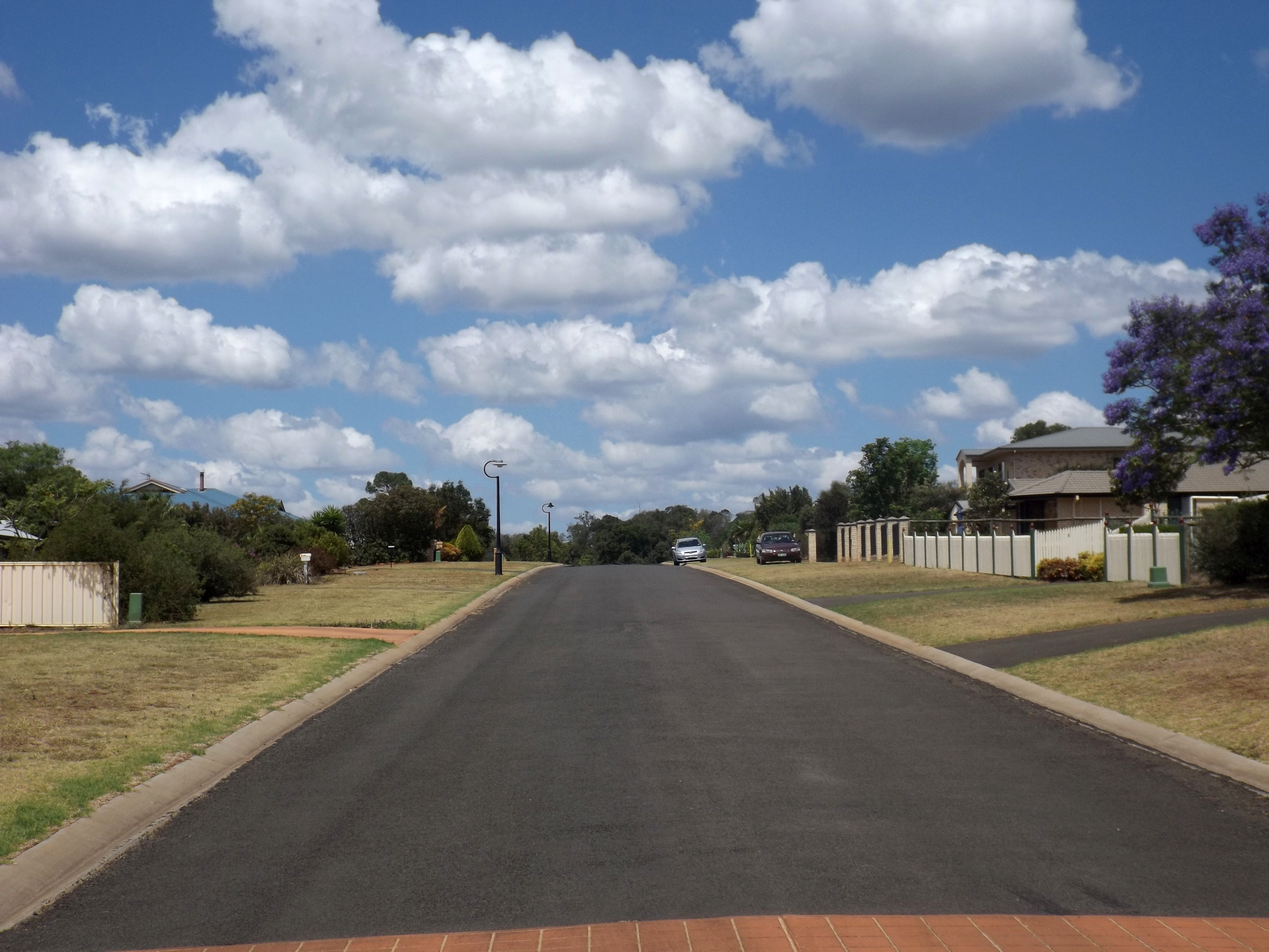 Photo of Charmaine Court at Kleinton in the Toowoomba Region, Darling Downs, Queensland, Australia.